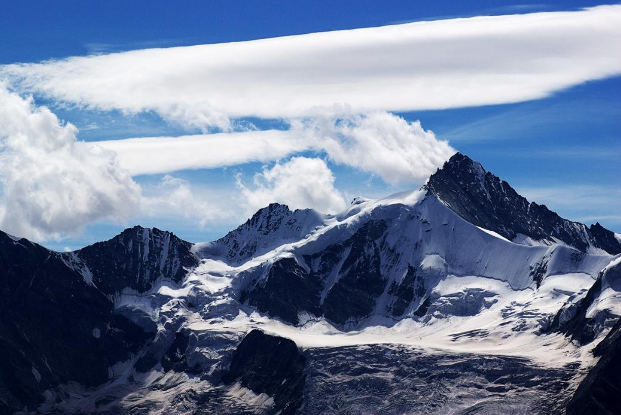 Zinalrothorn from north-west